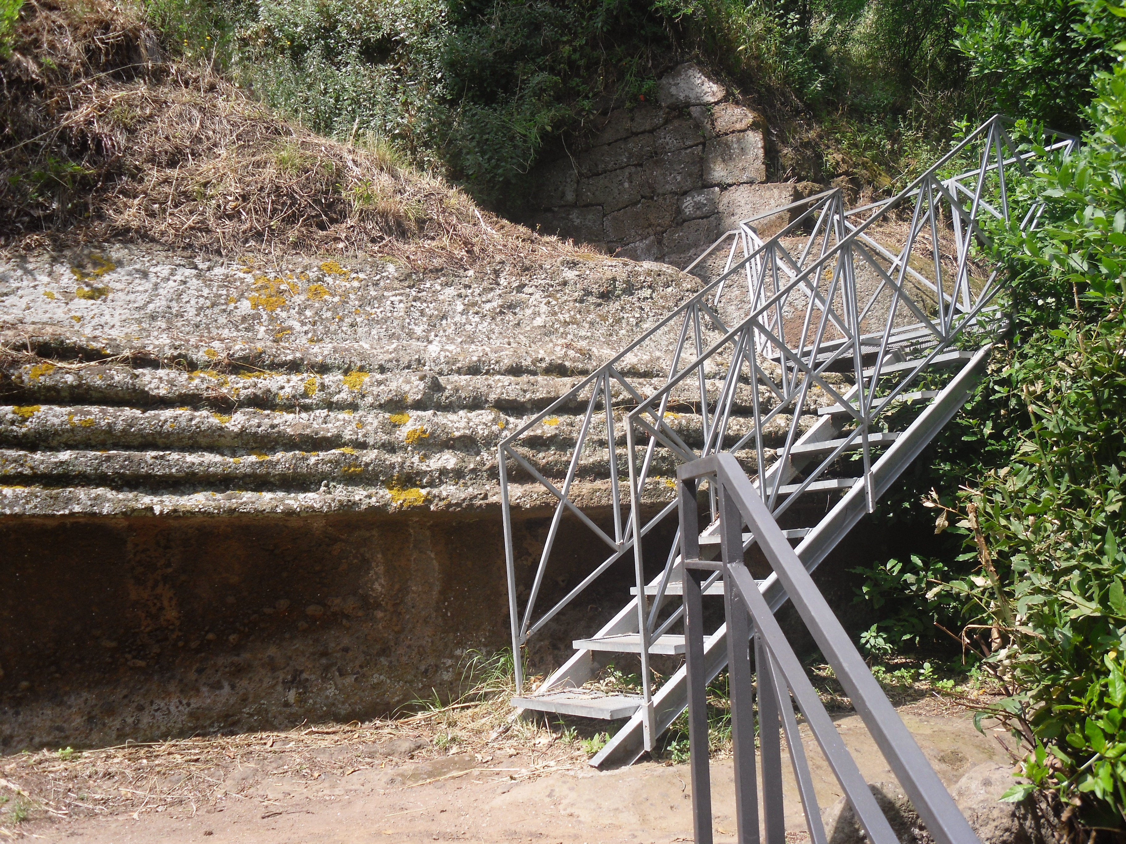 The outside of "Tomba dei Doli", an ancient Etruscan tomb in the necropolis of Banditaccia